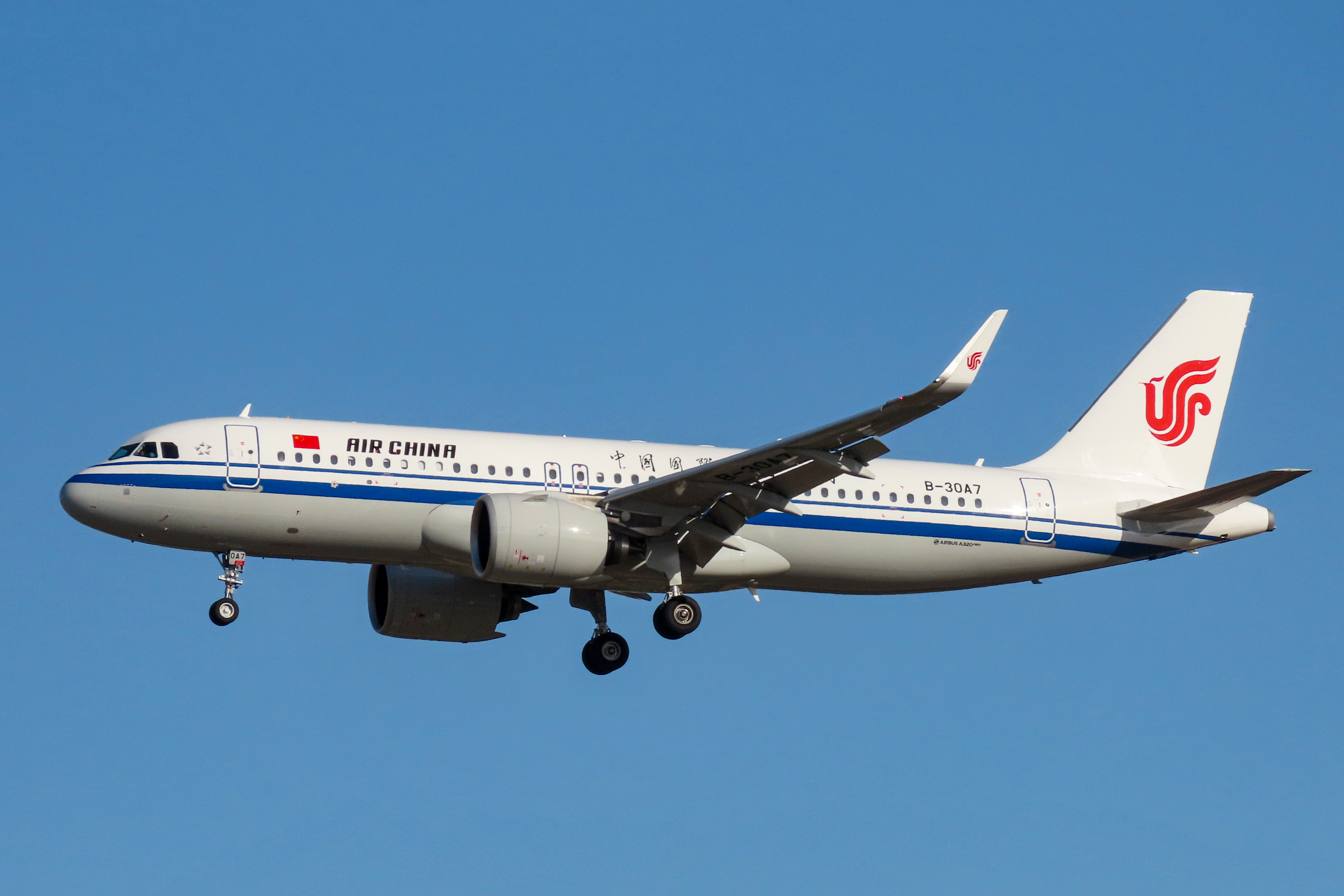 Air China 1705 from Hangzhou.